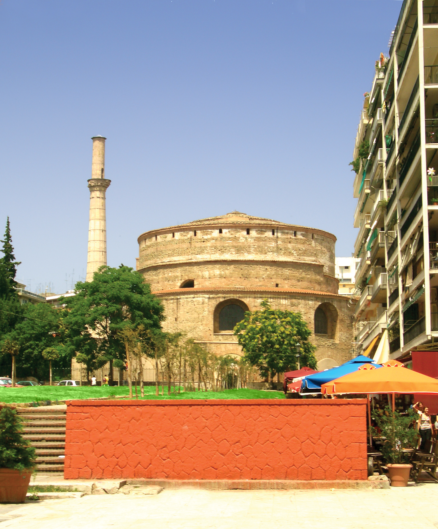 The Church of Saint George (Rotunda) in central Thessaloniki.